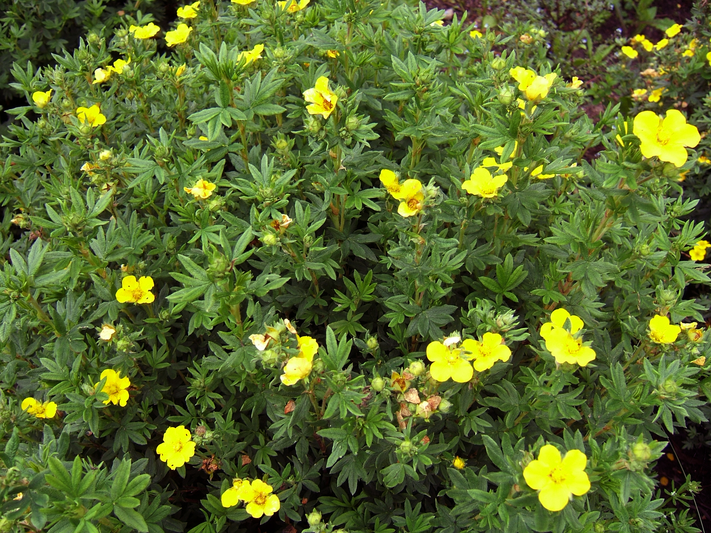 Dasiphora fruticosa subsp. fruticosa. Cultivated at Newcastle University Botanic Gardens; seed origin Upper Teesdale, approx 54°39'N 2°15'W (type locality of the species)